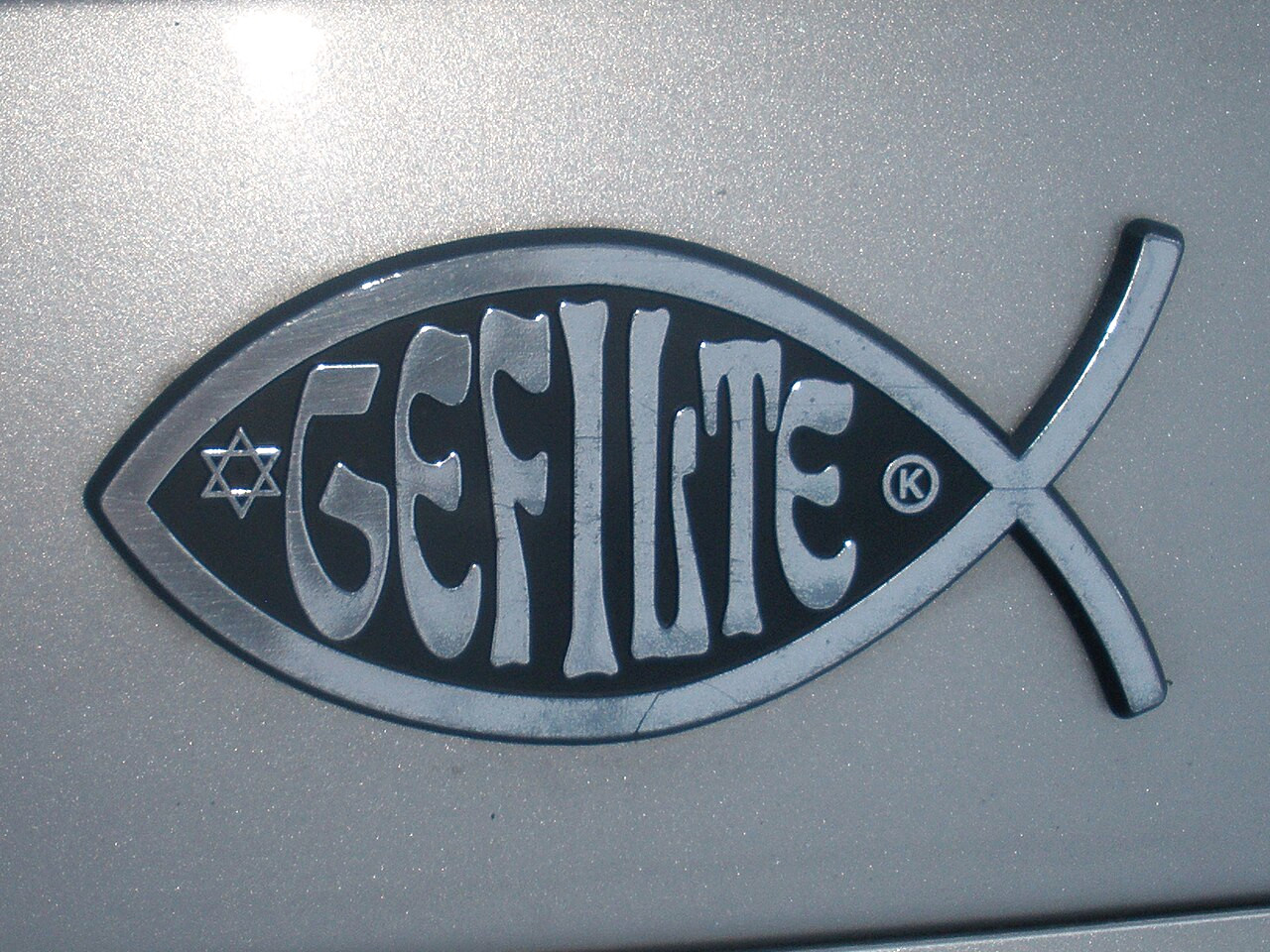 Gefilte fish joke plaque on liftgate of Honda vehicle